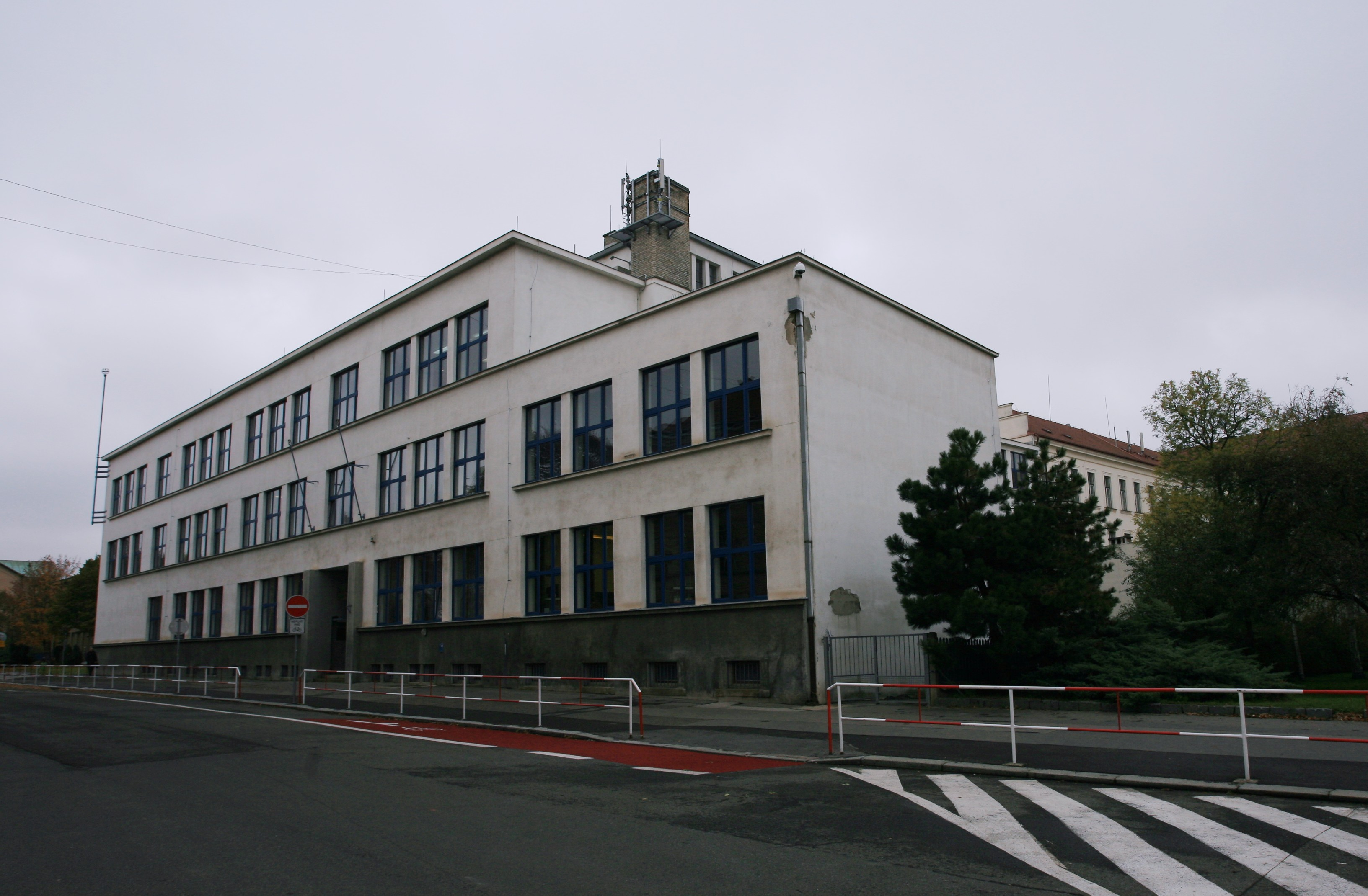 The building of Johannes Kepler Gymnasium in Prague, the main entrance in Parléřova street.